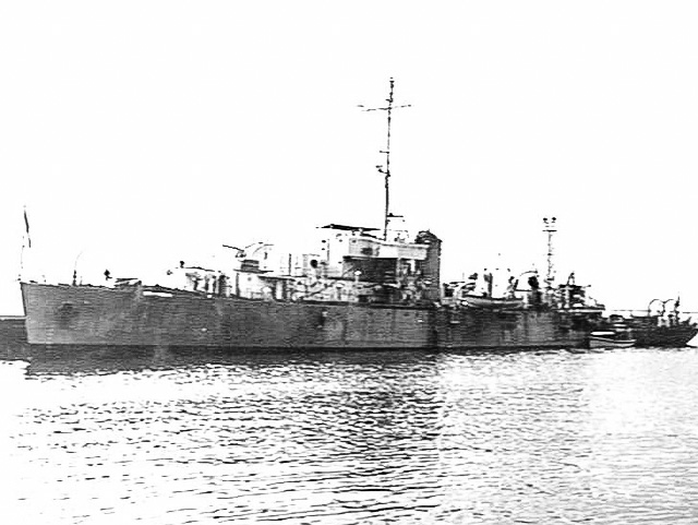 AWM Caption: PORT BOW VIEW OF THE FRIGATE HMAS LACHLAN POST WAR. SHE RETAINS HER TWO 4 INCH GUNS FORE AND AFT BUT NO CLOSE RANGE ARMAMENT IS FITTED, ALTHOUGH THERE IS AN EMPTY 20 MM OERLIKON SHIELD IN THE PORT BRIDGE WING. SHE HAS AN AERIAL FOR SC RADAR AT THE HEAD OF THE MAST AND ONE FOR SG HALFWAY UP. (NAVAL HISTORICAL COLLECTION)